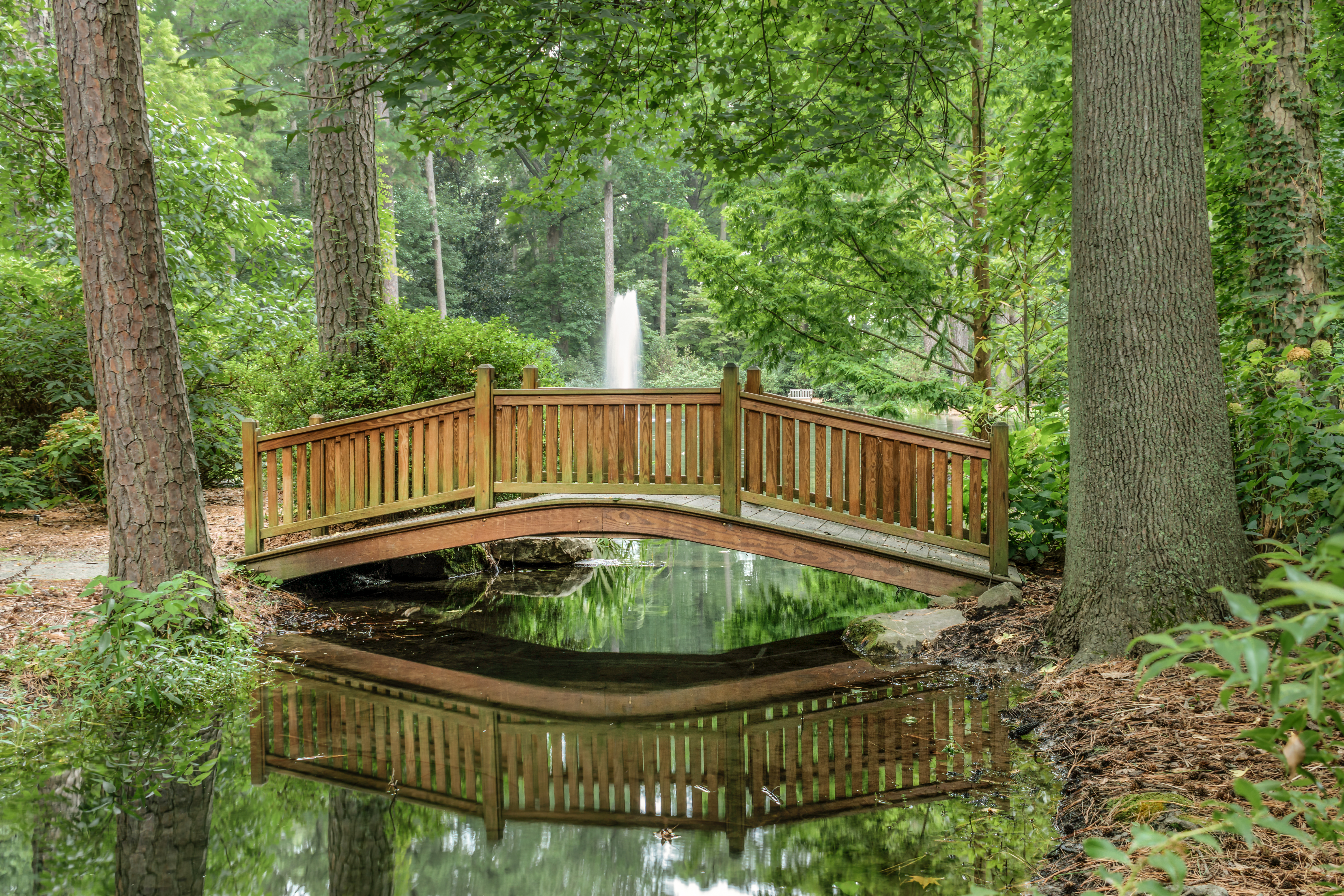 Stream, Moon Bridge, and Fountain at Friendship Pond at Norfolk Botanical Garden, Norfolk, Virginia.